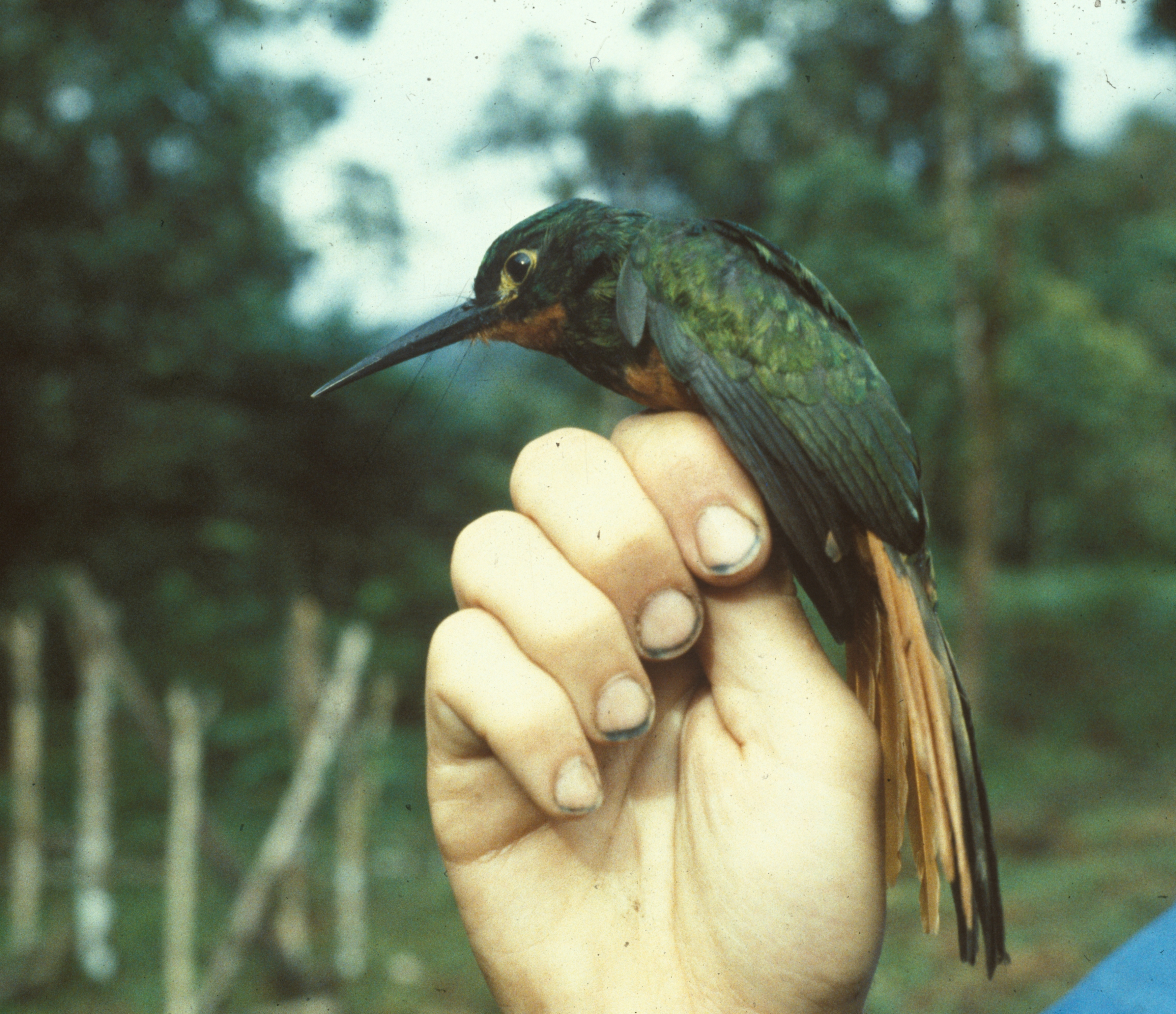 Coppery-chested Jacamar (Galbula pastazae) from the NBII Image Gallery. Photographed in Ecuador.